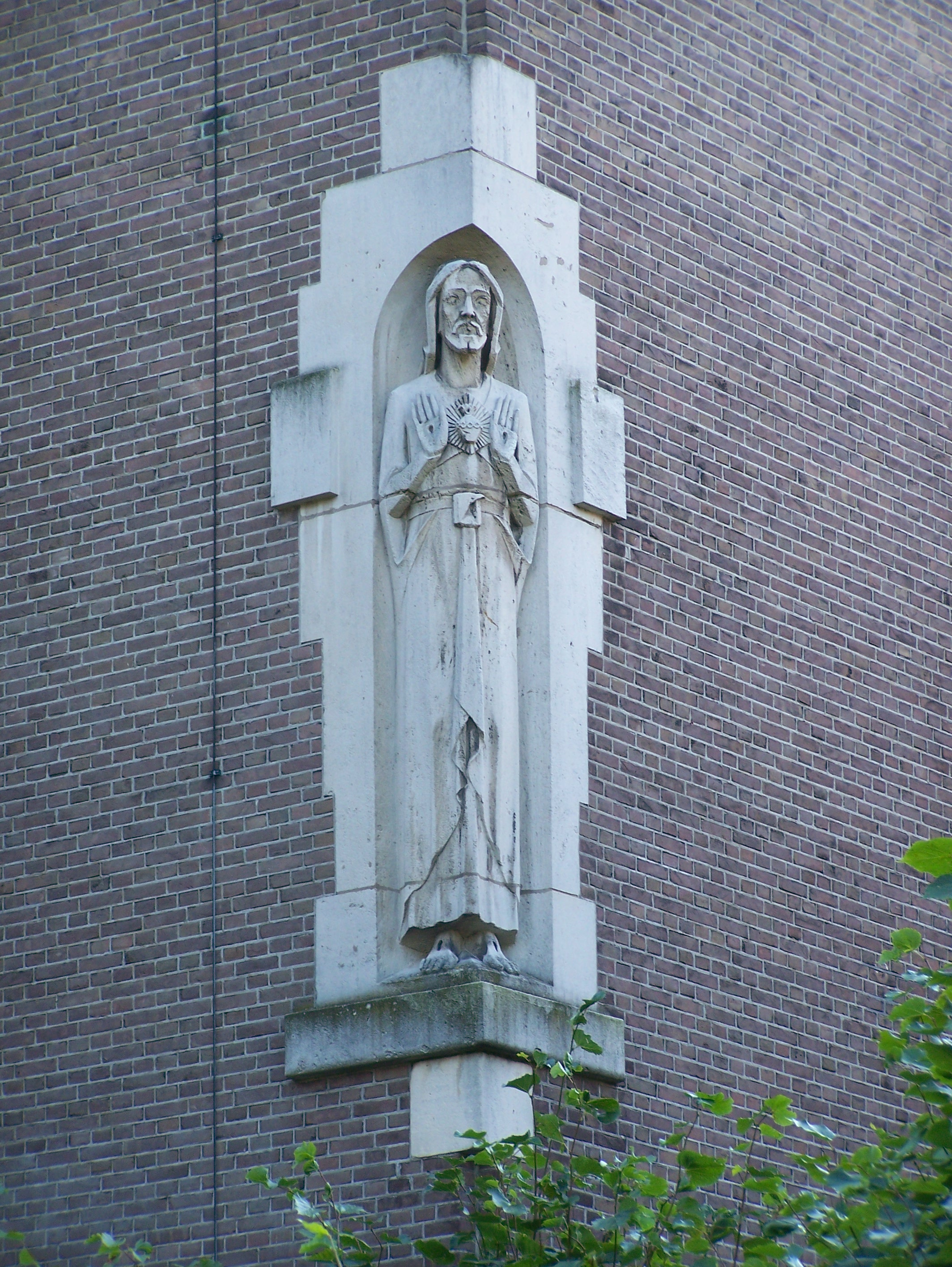 Sculpture of Christ on the corner of the former Heilig Hartchurch in Oudwijk, Utrecht. The sculpture was made by Hans Mengelberg between 1927-1929.